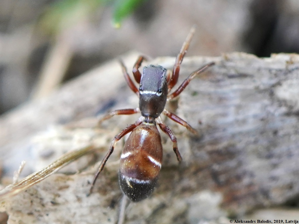 Synageles venator